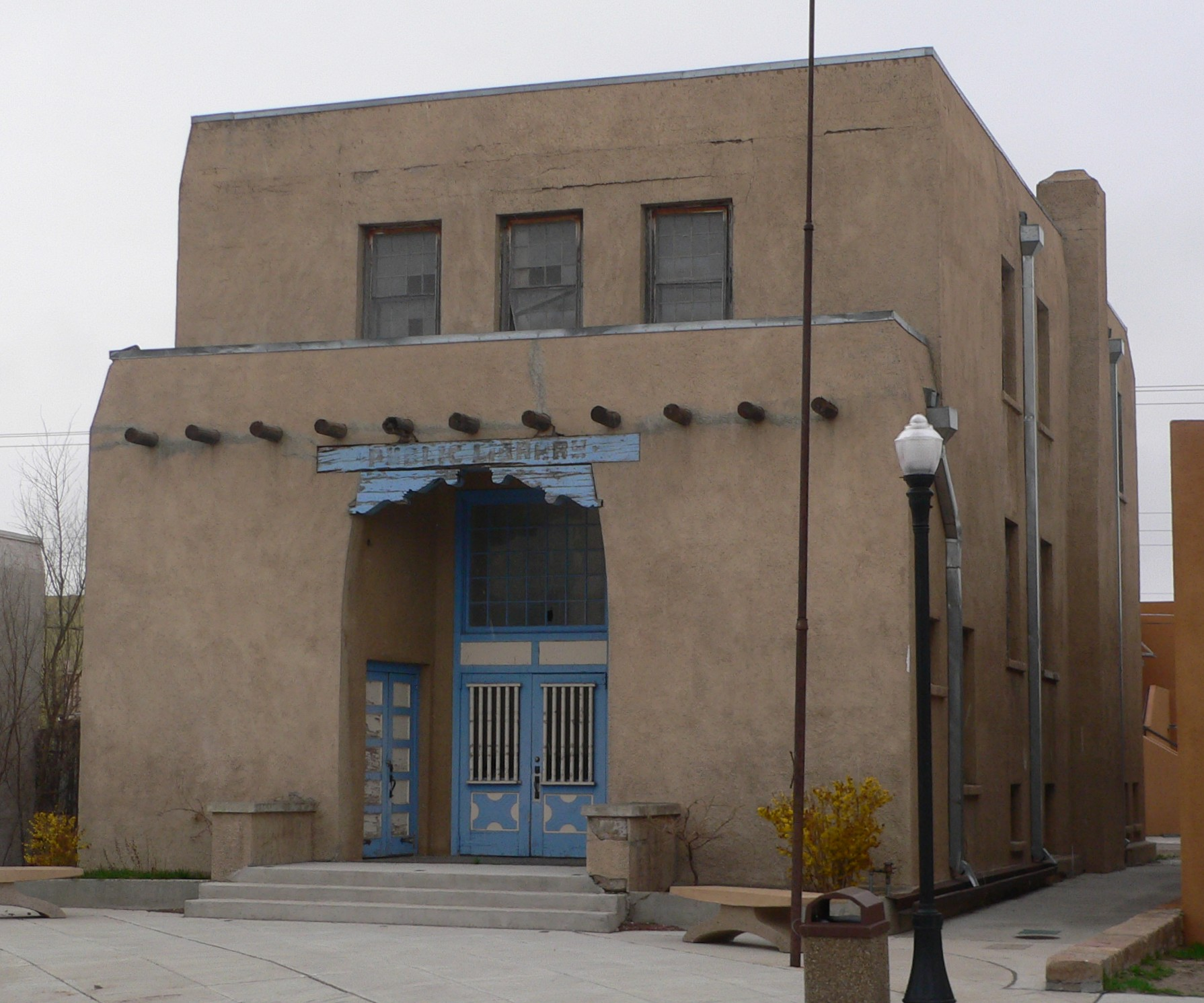 D. D. Monroe Civic Building, formerly public library, on Walnut Street in Clayton, New Mexico; seen from the northwest.